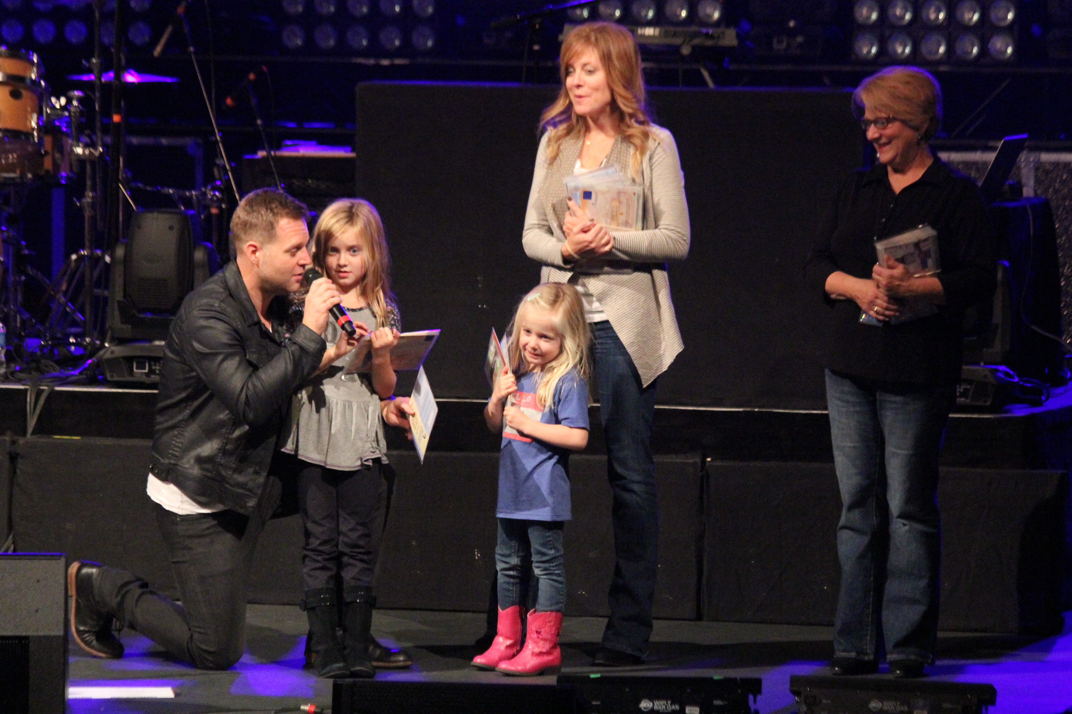 Christian music singer Matthew West talking on stage with this family: (L-R) daughter Lulu, daughter Delaney, wife Emily, and his mother. During his "Into the Light" tour at Appleton Alliance Church.